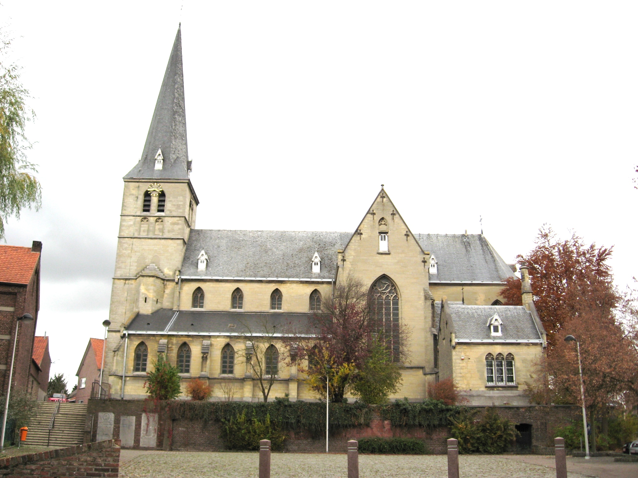 Church of Saint Denis in Opoeteren, Maaseik, Limburg, Belgium